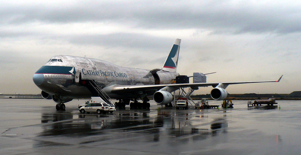 Cathay Pacific Cargo 747-400BCF on the ramp at YVR, being unloaded after arrival.